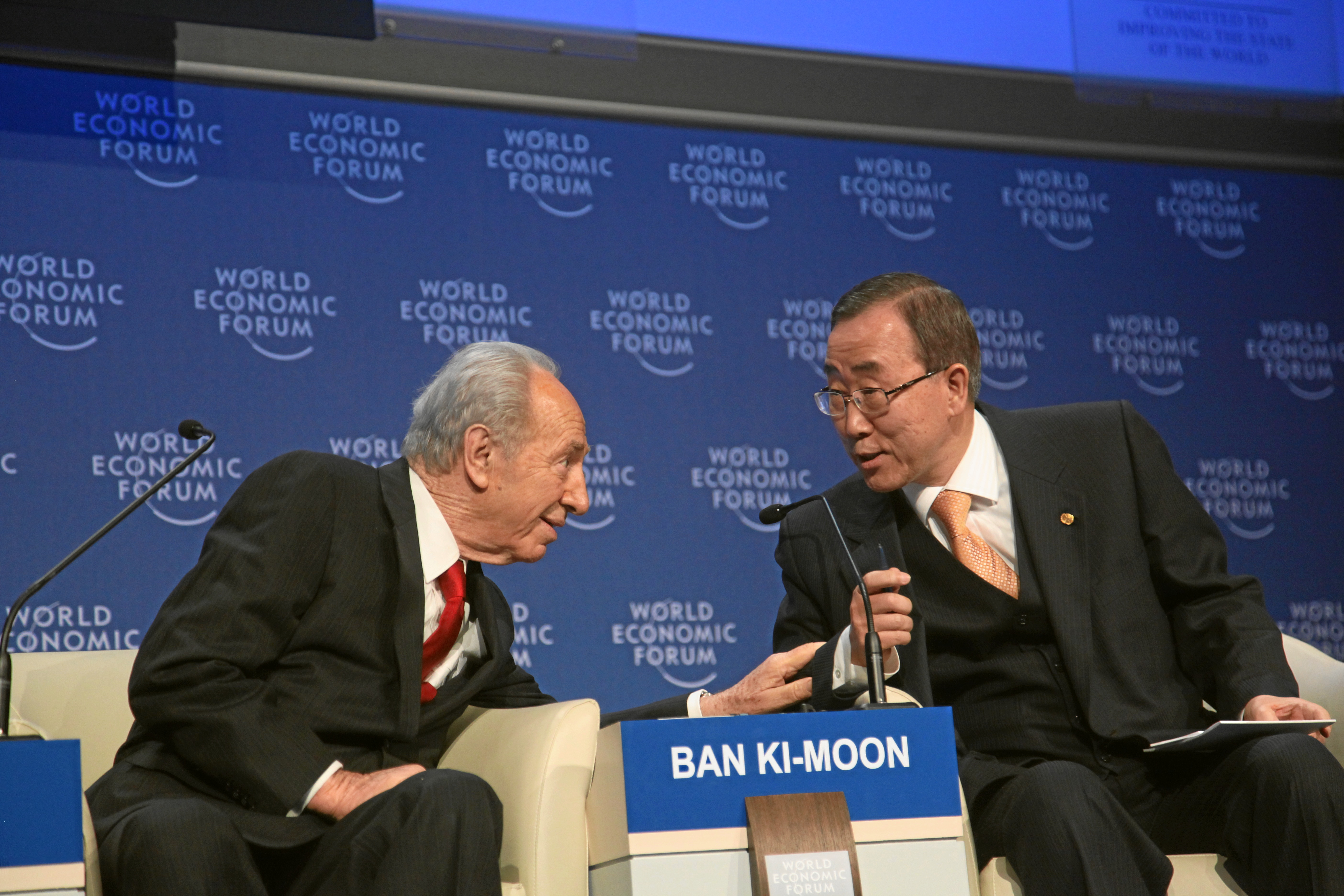 Shimon Peres, President, and Ban Ki-moon, Secretary-General of the United Nations, talked at the World Economic Forum Annual Meeting in Davos Municipality, Graubünden Canton on January 29, 2009.